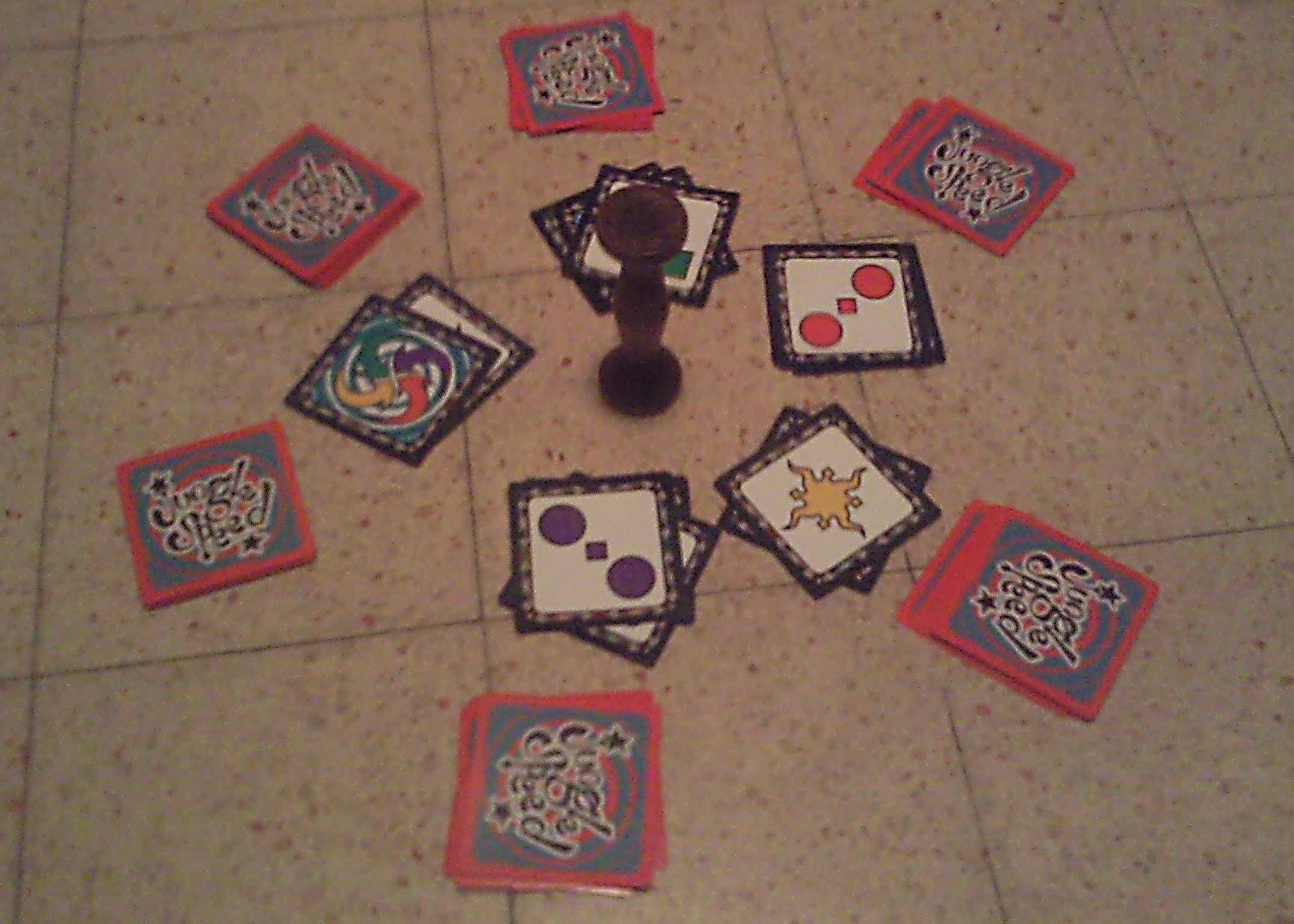 Jungle Speed